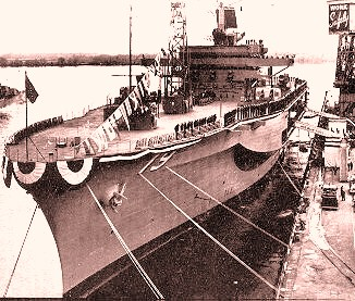 USS Blue Ridge (LCC-19) was put "in commission special" on 14 November 1970, at the Philadelphia Naval Shipyard as an Amphibious Command and Control (LCC) ship, with Captain Kent J. Carroll (Vice Admiral Carroll, Ret.) as the Commanding Officer. "The ship was sponsored by Mrs. Harry F. Byrd, Jr., wife of the U. S. Senator from Virginia. The principal speaker at the ceremony was the Honorable John W. Warner, Under Secretary of the Navy." [1] "BLUE RIDGE, the first ship of her class, represents almost 7 years of planning and construction work which has pro-duced a ship specifically designed from the keel up as a com-mand and control ship. BLUE RIDGE is capable of supporting the staff of both the Commander of an Amphibious Task Force and the staff of the Commanding General of the Landing Force. The advanced computer system, extensive communications package and modern surveillance and detection systems are molded into the most advanced joint amphibious command and control center ever constructed." [2] "In becoming operational BLUE RIDGE assumes the distinct-ion of carrying the world's most sophisticated electronics com-plex to sea--a package some thirty percent larger than that of the attack carrier John F. Kennedy, which until the time of the BLUE RIDGE's commissioning, held this record. BLUE RIDGE utilizes her "main battery" of computers, communications gear, and other electronic facilities to fulfill her mission as a "com-mand ship for Amphibious Task Force and Landing Force Commanders during Amphibious Operations," ... an extremely refined communications system is also an integral part of the ship's radical new design. Through an Auto-mated patch panel and computer controlled switching matrix and combination of communication equipment desired may be quickly connected. The "clean" topside area is the result of careful design intended to keep to a minimum the ship's interference to her own communications system." [3]